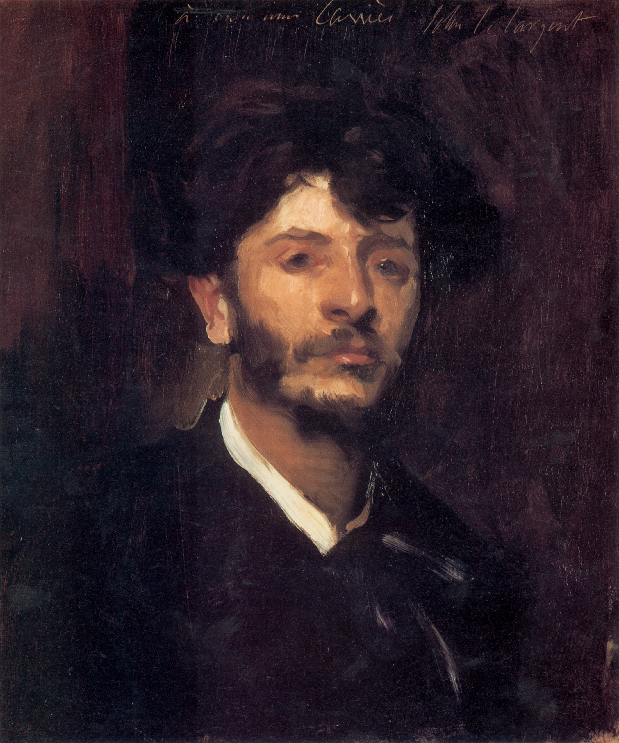 Portrait of Jean Joseph Marie Carries